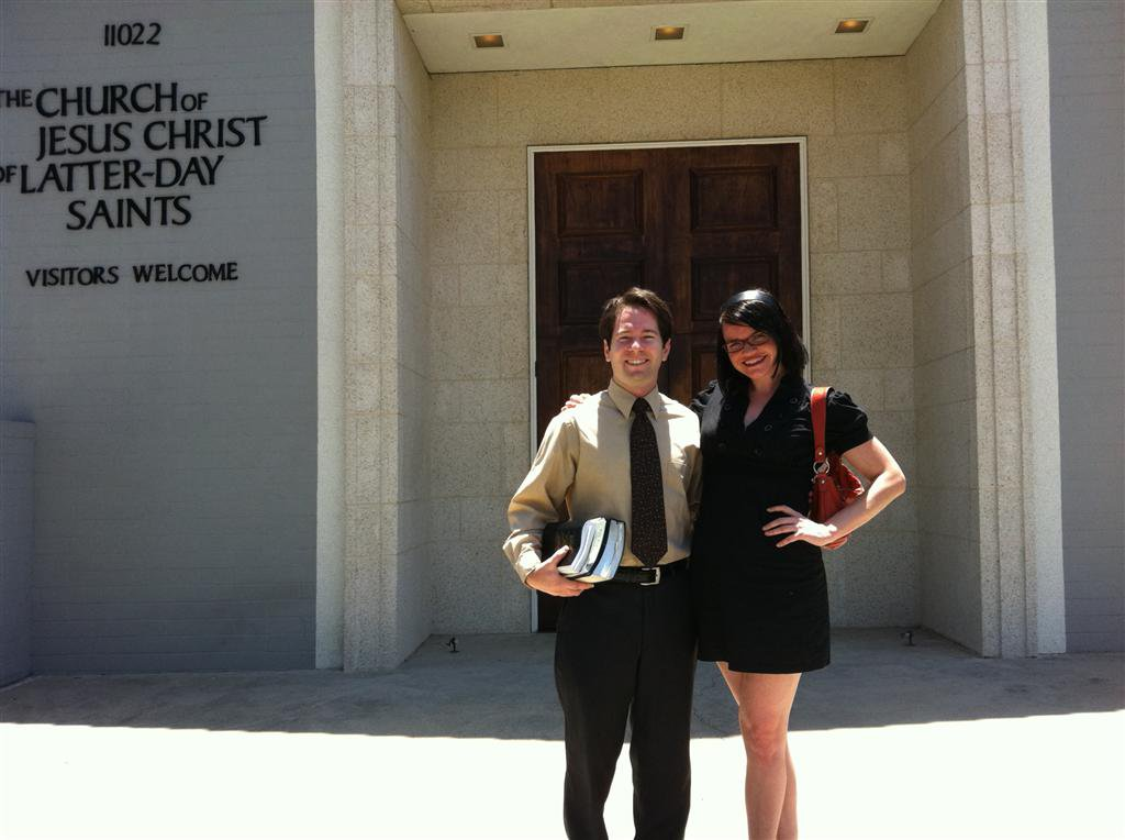 Ross Blocher and Carrie Poppy, in front of a Meetinghouse of The Church of Jesus Christ of Latter-day Saints in Studio City, Los Angeles, California. Photo taken as part of an 2011 investigation (Part 1 & Part 2) for the podcast "Oh No, Ross and Carri!" .